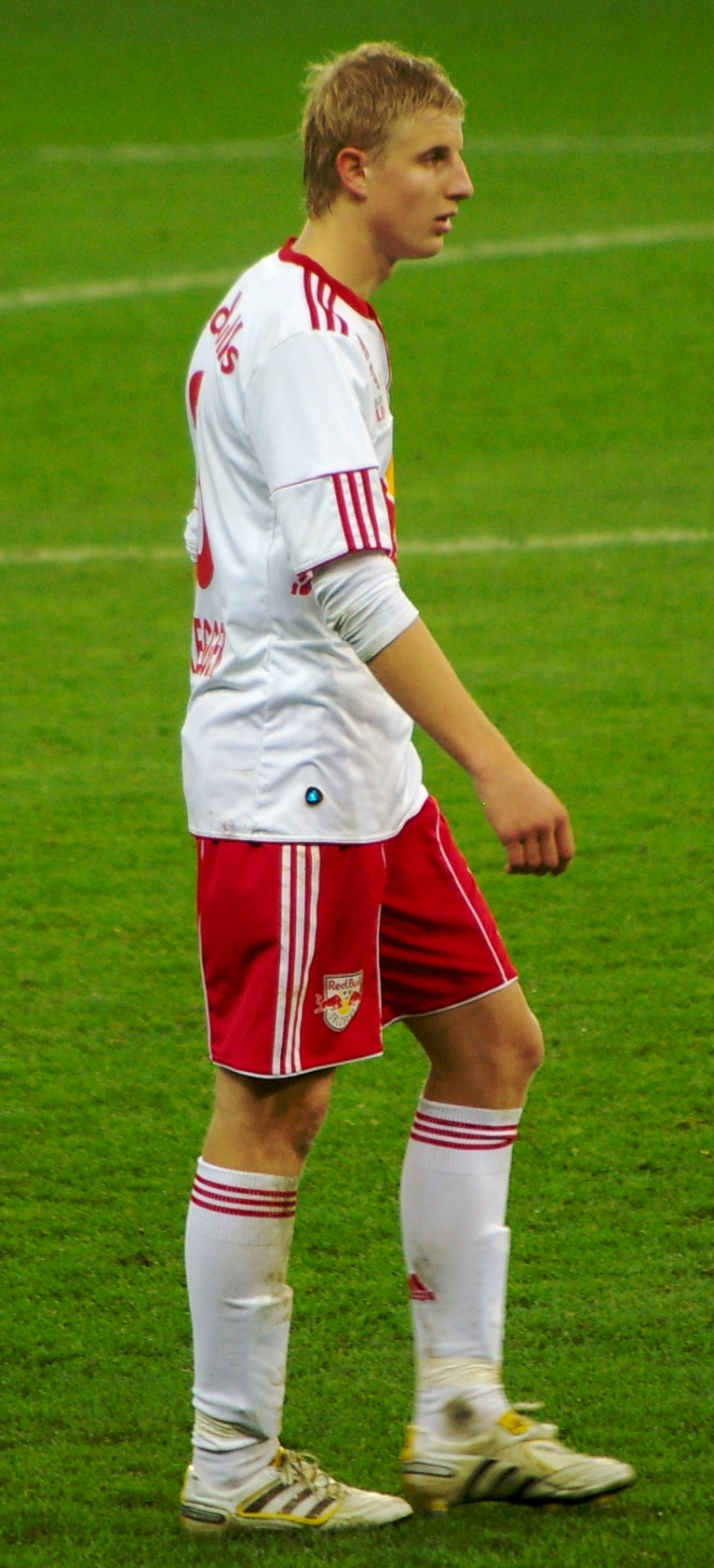 defender FC Salzburg